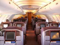 Taken on Singapore Airlines Flight 866 bound for Hong Kong. Pictured is the now old Raffles Class on the upper deck of a Boeing 747-412. Excellent service provided by the friendly crew of Singapore Airlines.IMG_2720